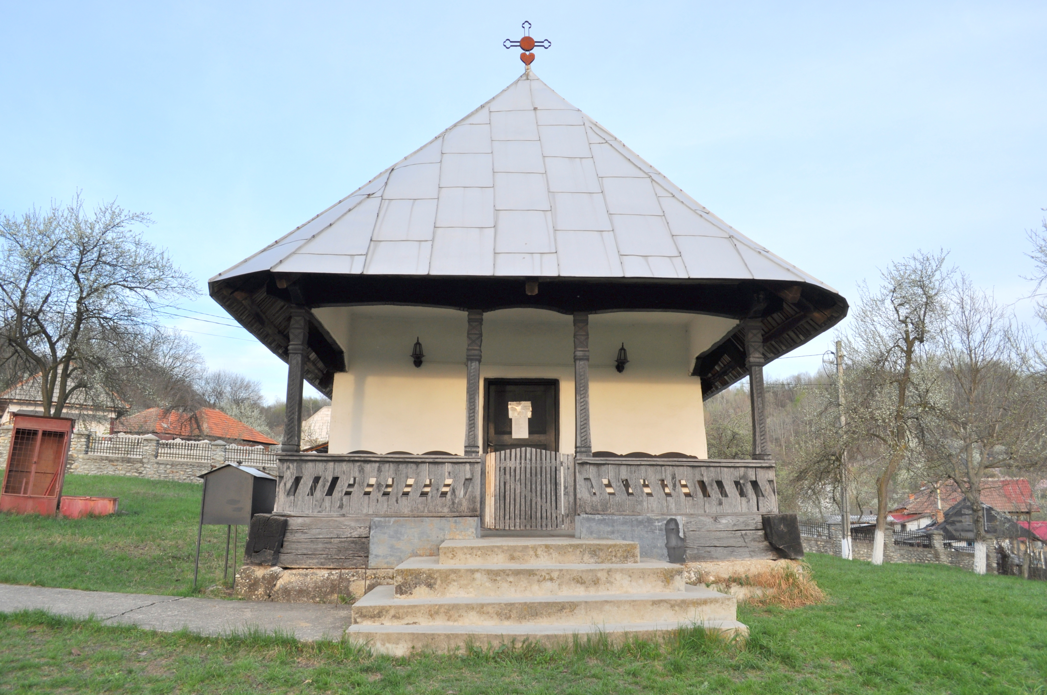 Wooden church in Ursoaia, Gorj county, Romania